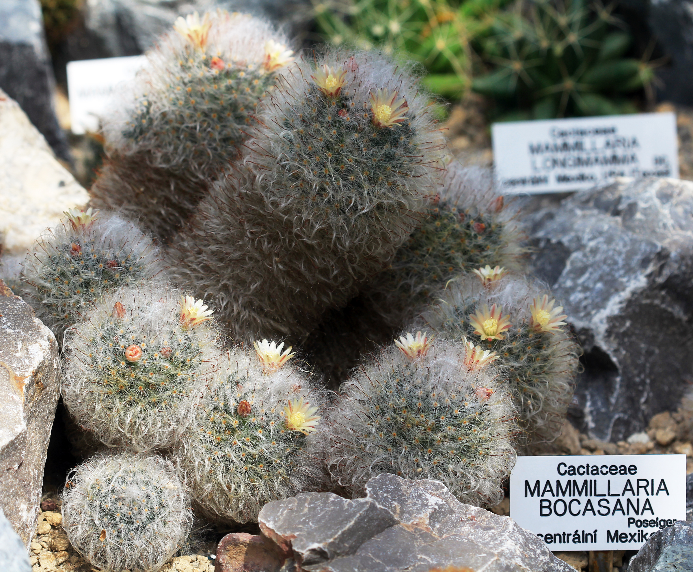 Cactus Mammillaria bocasana, The Botanical Gardens of Charles University, Prague, Czech Republic